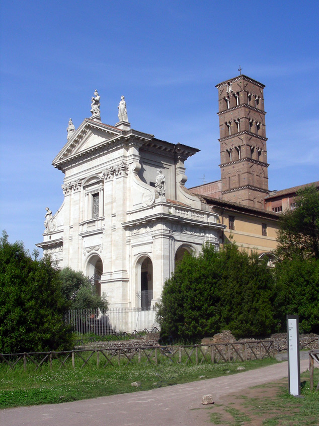 Rome, church of Saint Francesca Romana, view from archeological area of Roman Forum